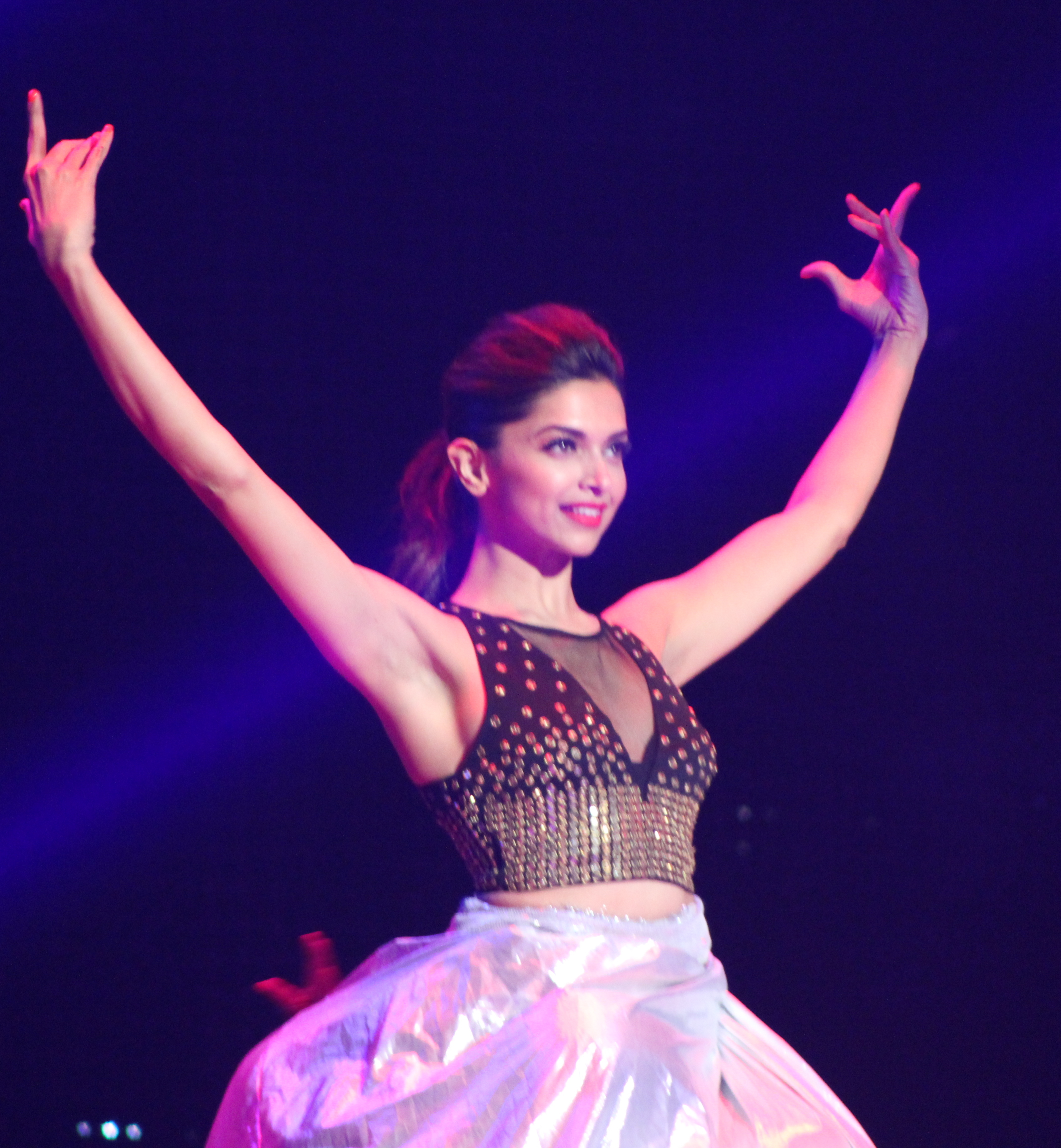 Deepika Padukone | SLAM The Tour - 20 September 2014 - IZOD Center, East Rutherford, New Jersey. Photo by James C. Dooley